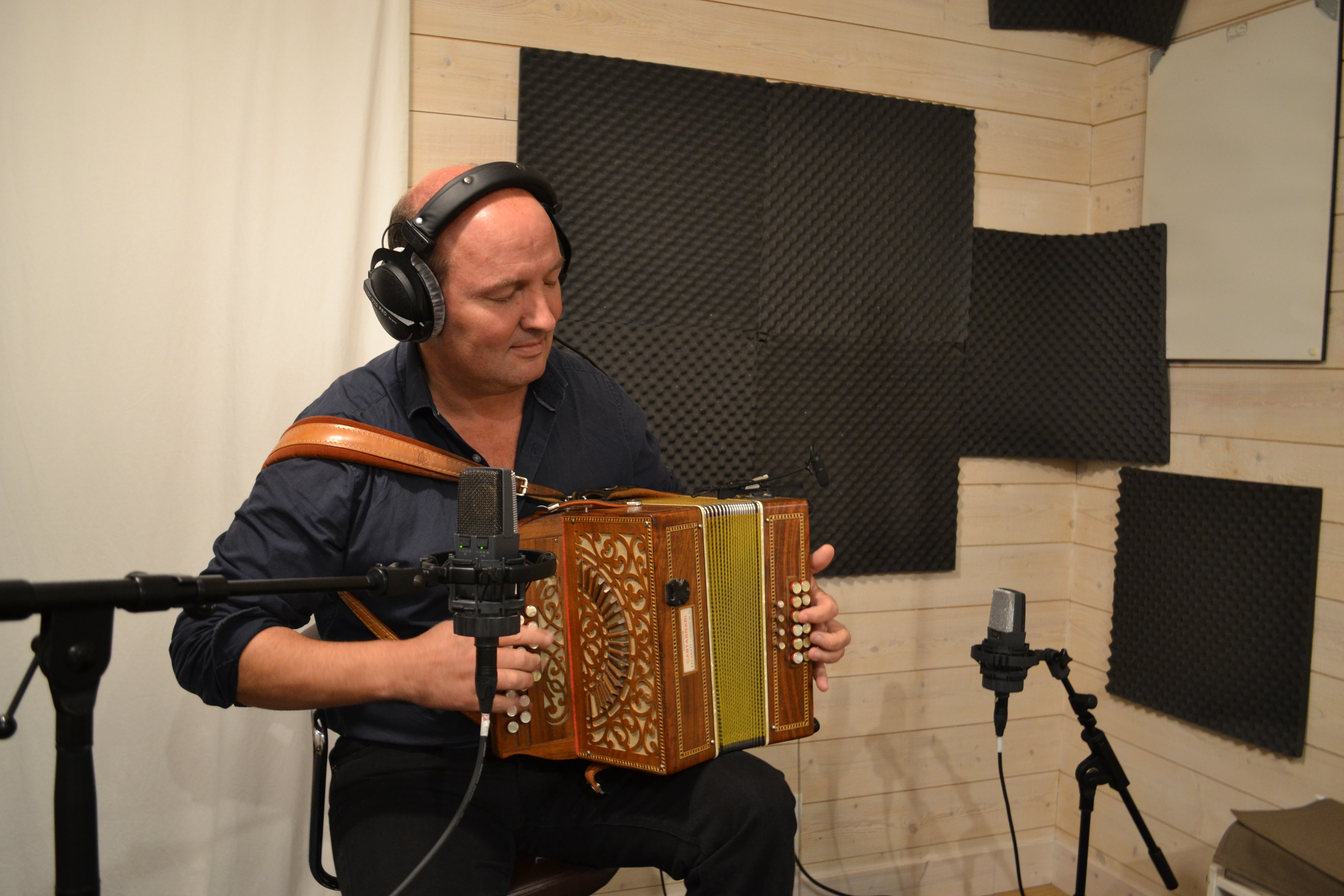 Fred Guichen en studio d'enregistrement pour l'album Dor An Enez (2018).